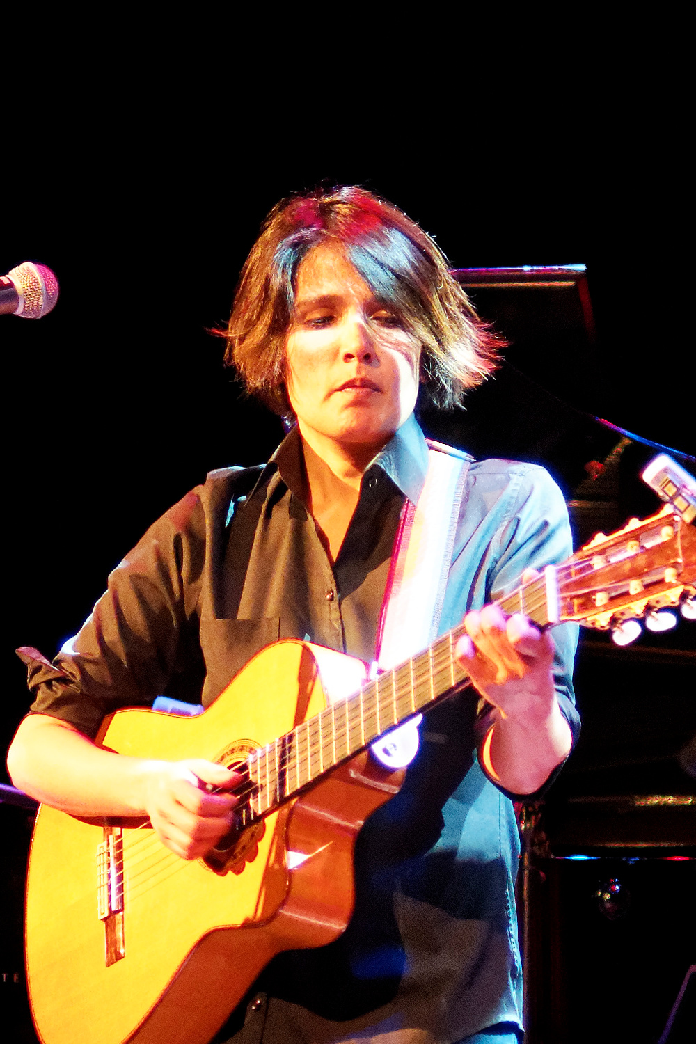 Closer to the People. Perfromance by Tanita Tikaram at TivoliVredenburg, Utrecht, Netherlands, on 4 April 2016.